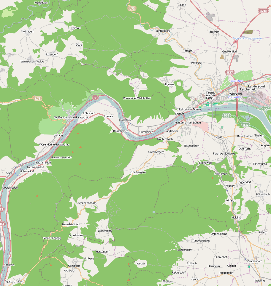 Map of the upper part of the Wachau valley